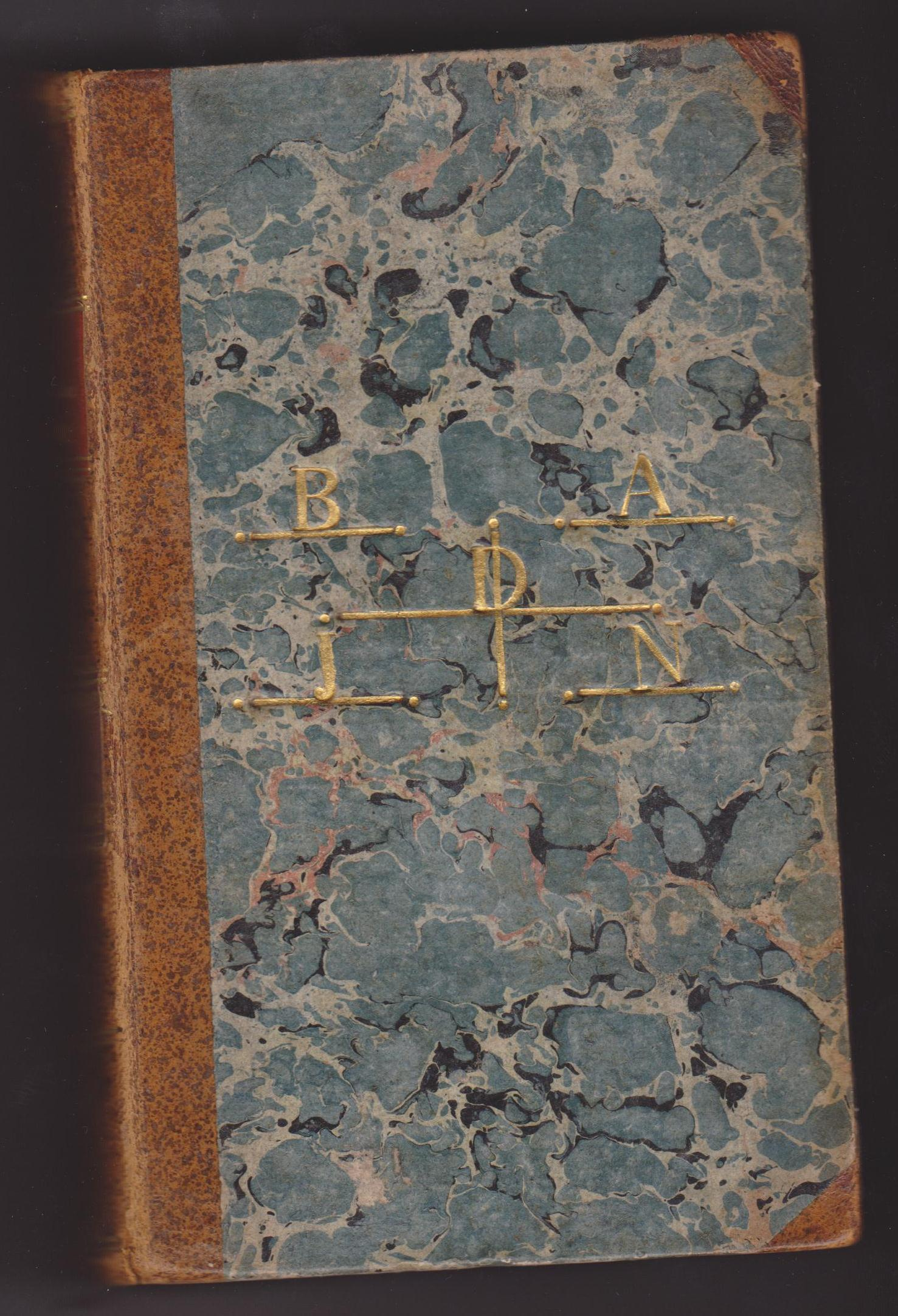 Picture of a book from the library of Gutav Badin (1747? 1750?-1822), working in the swedish court under Lovisa Ulrika and Gustav III.